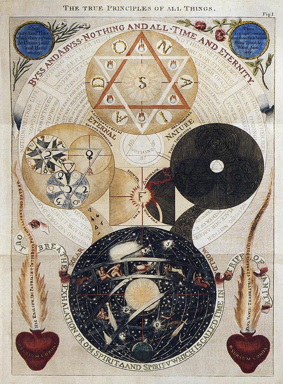 An illustration by Dionysius Andreas Freher, a German mystical writer who lived from 1649 to 1728. The picture was published in an eighteenth century British publication of Jakob Böhme's works: The Works of Jacob Behmen, The Teutonic Philosopher, vol. 3, from 1764.